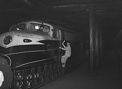 EMD EA diesel locomotive of the Baltimore and Ohio Railroad